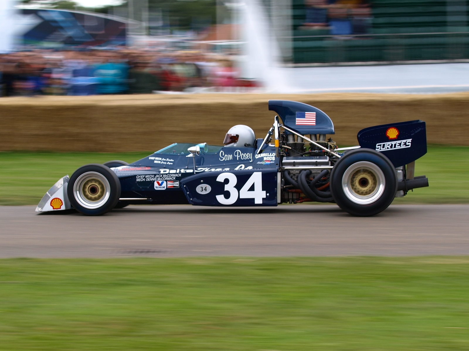 Sam Posey`Surtees TS9B being demonstrated at the 2008 Goodwood Festival of Speed.